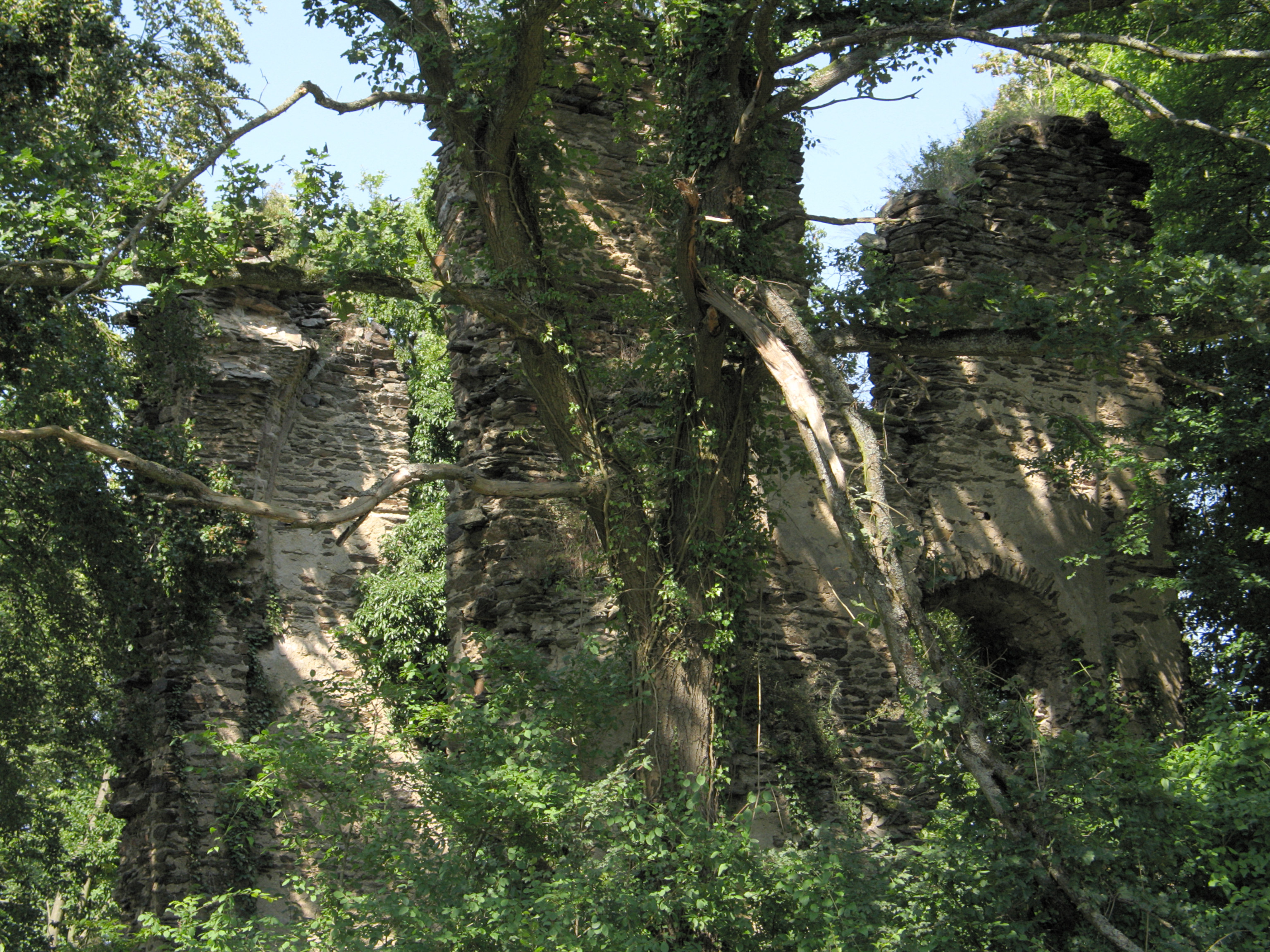 Ruins of the Brunnenburg monastery near Bremberg, Rhein-Lahn-Kreis, Germany. The picture shows the remains of the choir of the monastery church.